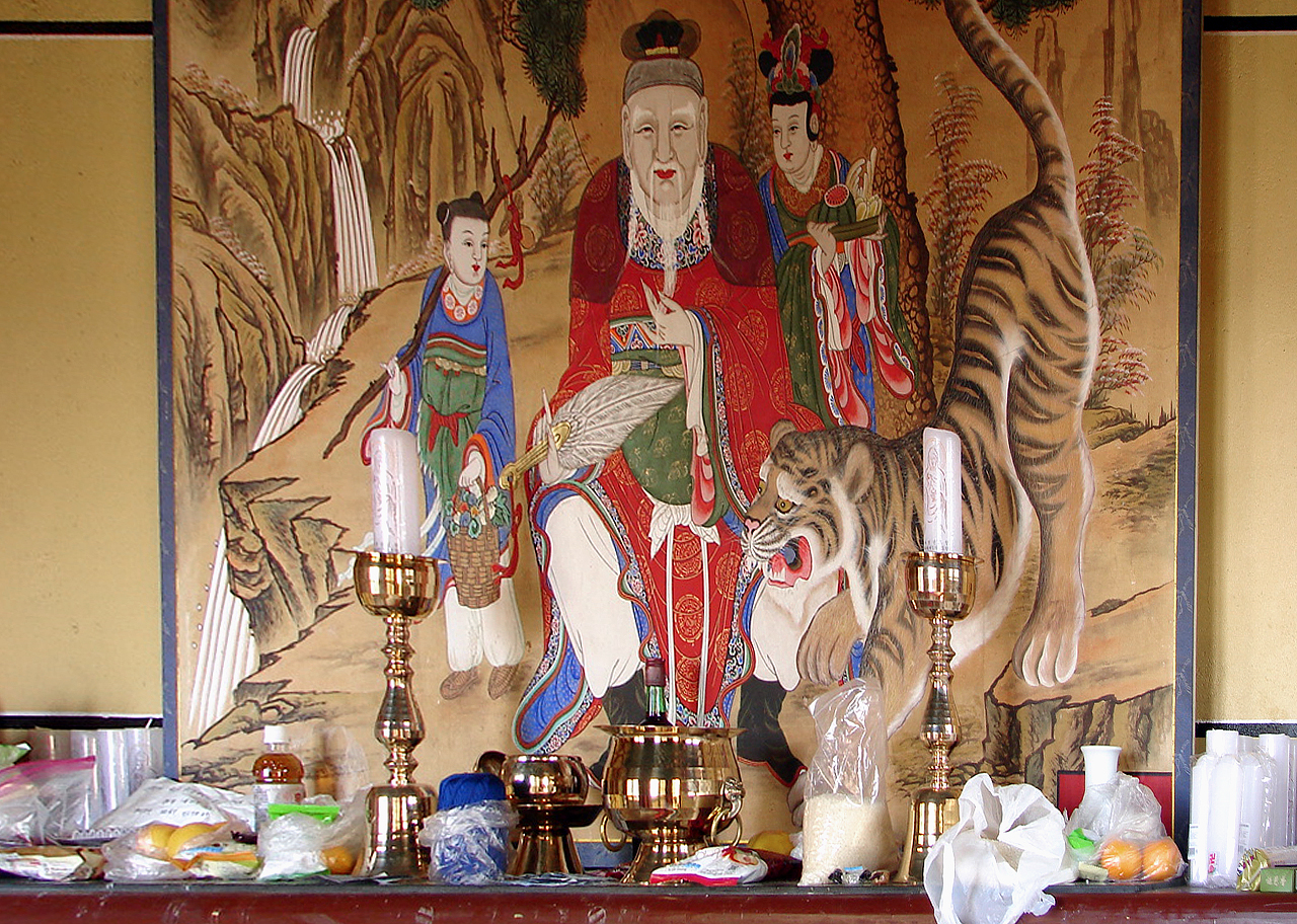 Sanshingak (Mountain-spirit Shrine). Sanshin are the local gods of mountains typically represented as an elder male figure surrounded by tigers. Saseongam is said to have been built by Priest Yeongi Chosa in 544. Named Saseongam, or the Hermitage of Four Saints, after four high priests: Yongi Chosa, Wonhyo Taesa, Toseon Kuksa, and Chinkak Seonsa, that lived and worked here at one time. Saseong Hermitage is Jeollanamdo Cultural Property Material #33.